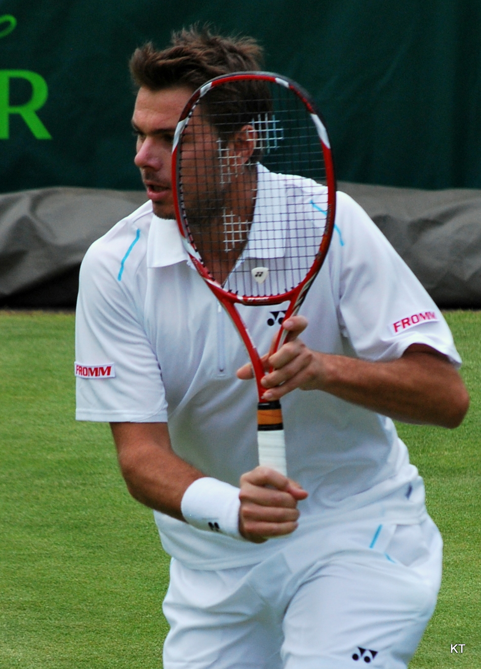 The Boodles, Stoke Park 2012.